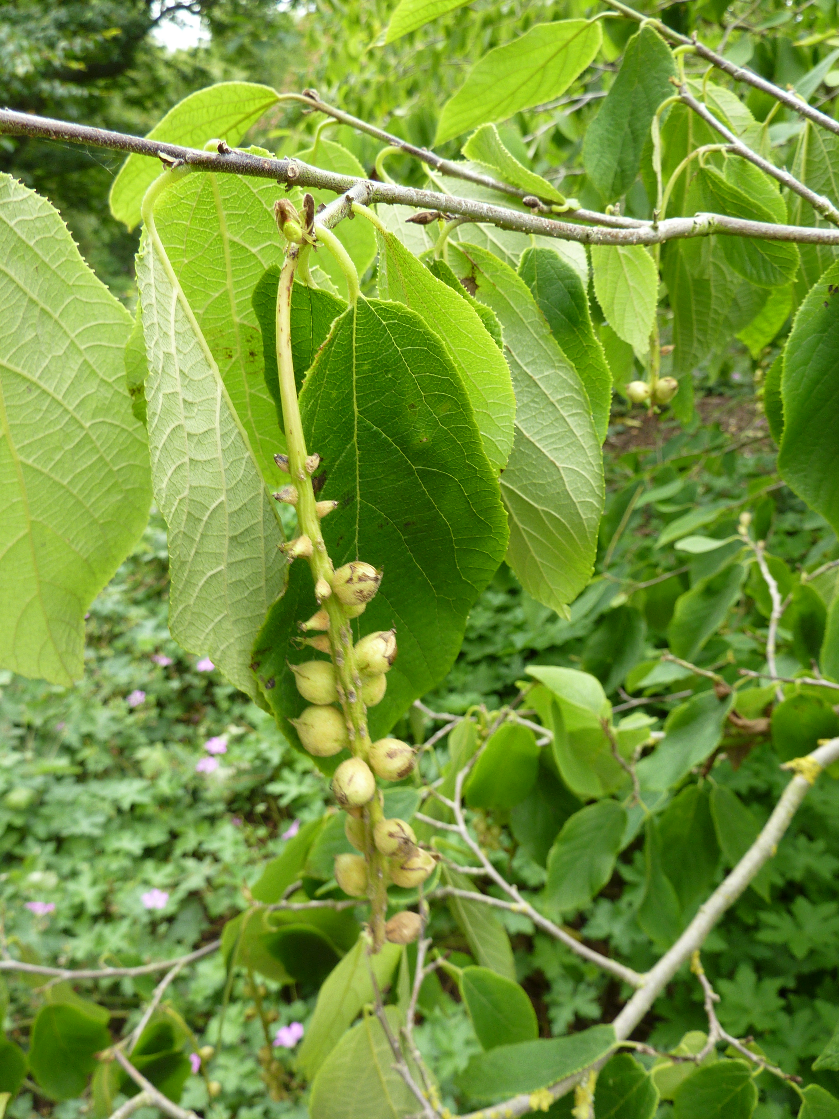 Sinowilsonia henryi, Cambridge University Botanic Garden